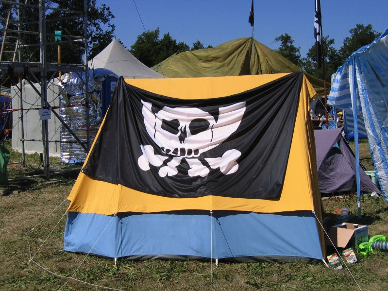 Tent with CCC pirate flag as seen on the Chaos Communication Camp 2003, near Berlin